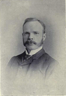 Emerson Coatsworth Source: The Canadian album : men of Canada; or, Success by example, in religion, patriotism, business, law, medicine, education and agriculture; containing portraits of some of Canada's chief business men, statesmen, farmers, men of the learned professions, and others; also, an authentic sketch of their lives; object lessons for the present generation and examples to posterity (Volume 1) (1891-1896) Creator: Cochrane, William, 1831-1898 Creator: Hopkins, J. Castell (John Castell), 1864-1923 Publisher: Brantford, Ont. : Bradley, Garretson & Co. Date: 1891-1896